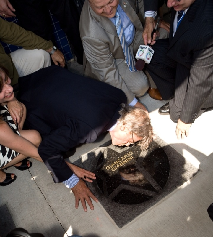 In 2009, Giannini received a star on the Italian Walk of Fame in Toronto, Canada.